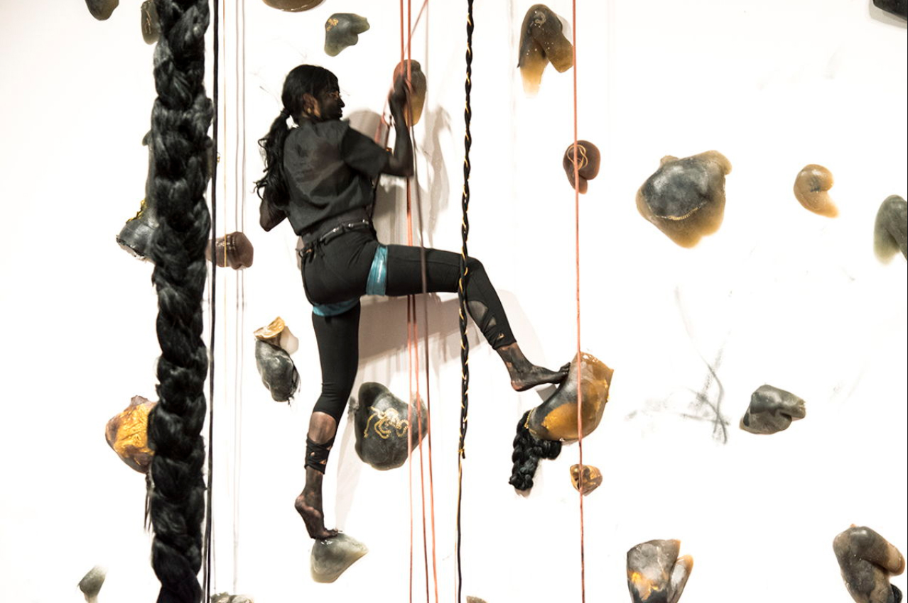 the artist performing with braided ropes and a rock wall installed in an art gallery